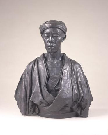 Description: Statue of Japanese Actor, by Vincenzo Ragusa Location: Tokyo National University of Fine Arts & Music Date: 1880s